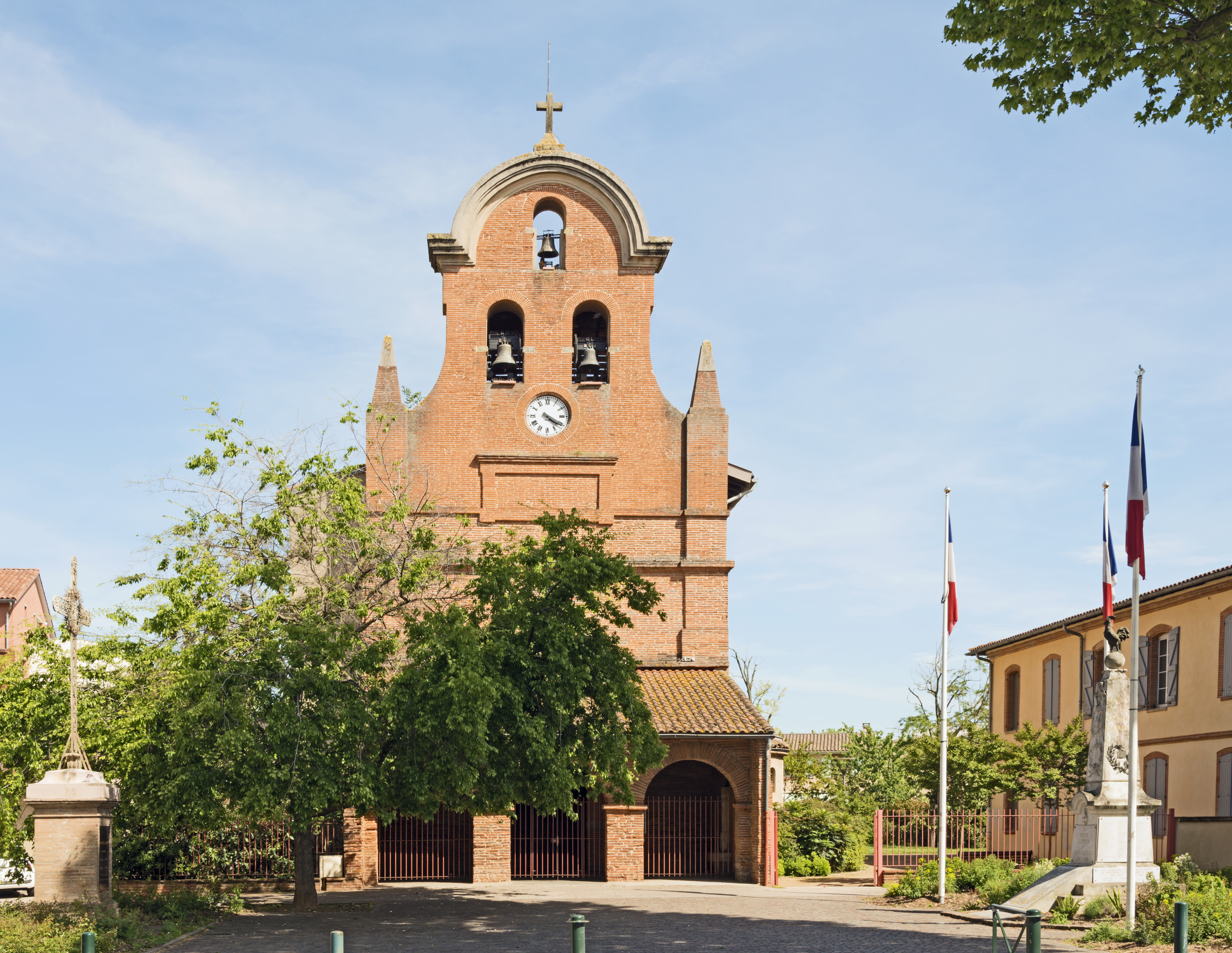 Church Saint-Caprais in Toulouse. Facade and bell gable. War mermorial